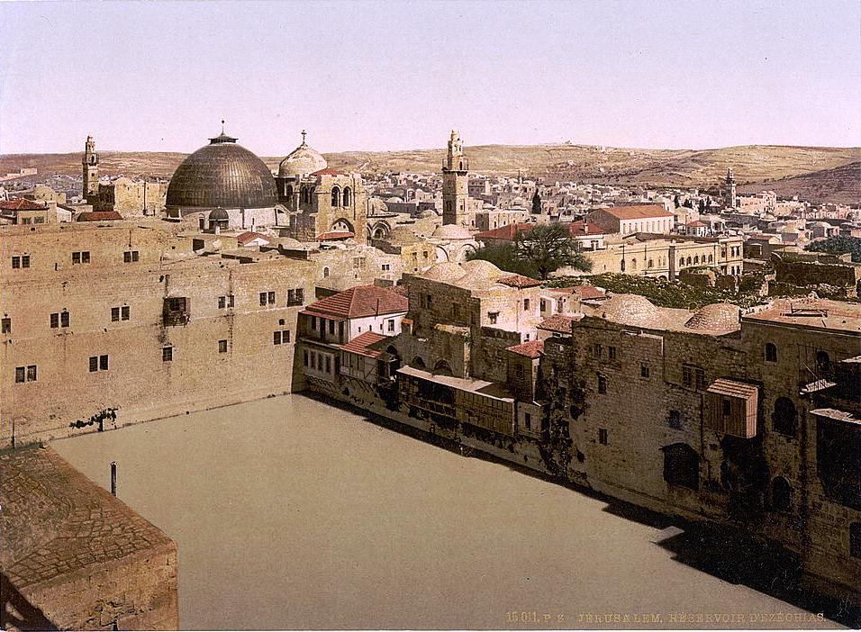 The Pool of Hezekiah, Jerusalem, Holy Land